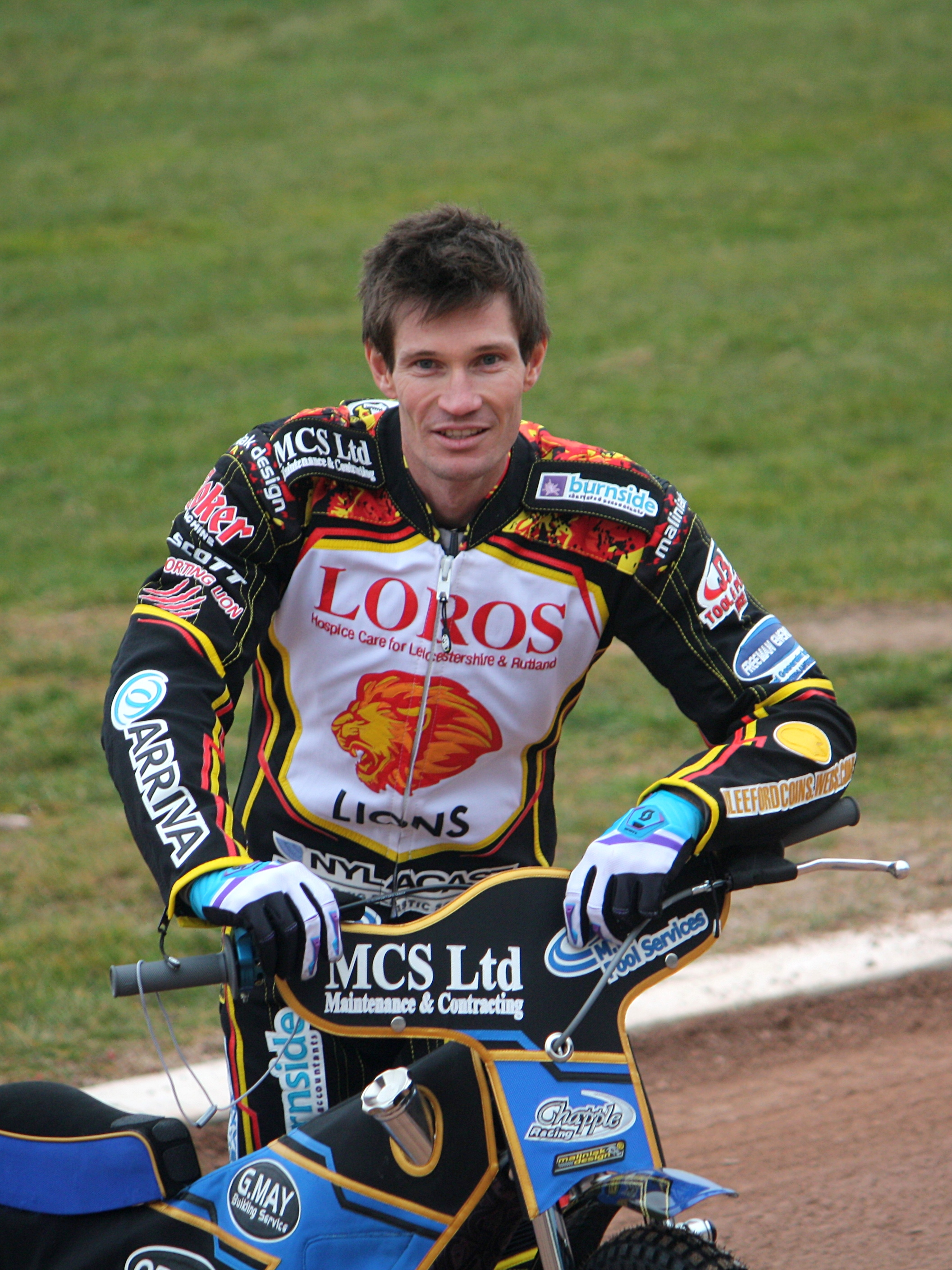 Australian speedway rider Jason Doyle